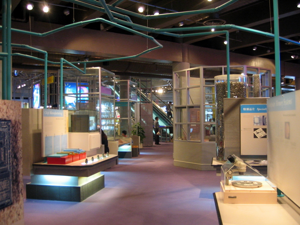 HKSM Copmuter Exhibit